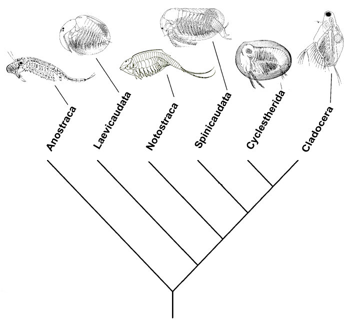 Current view of possible phylogeny of Branchiopoda after Stenderup, Olesen & Glenner